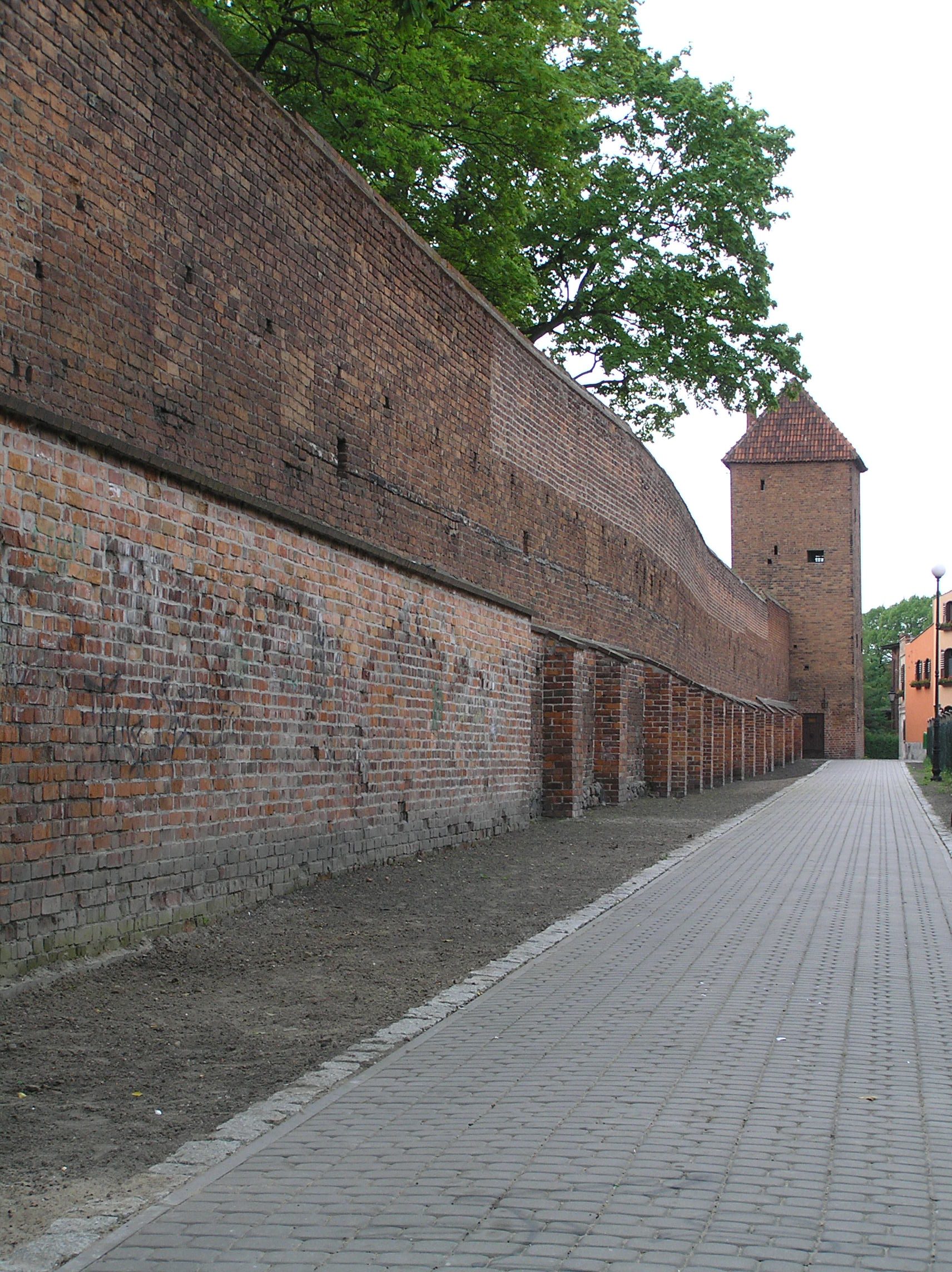 Chełmno, city defensive and Powder Tower